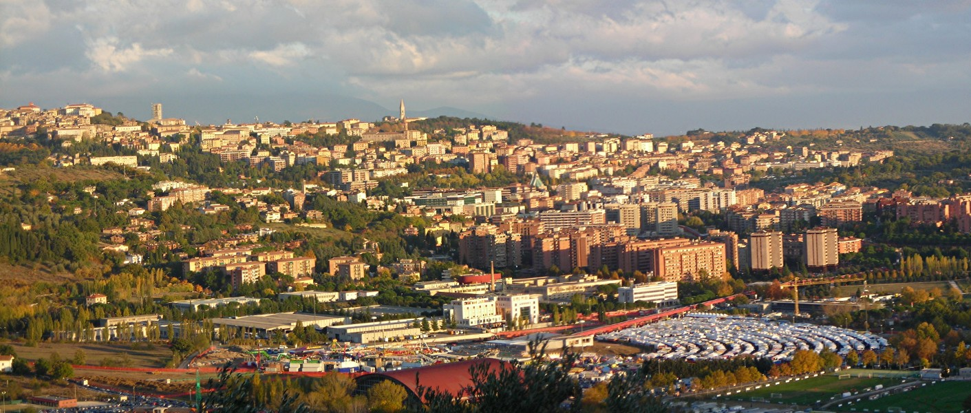 Fiera dei Morti (Deads Fair), the November popular fair held in Perugia, Umbria, Italy, every year